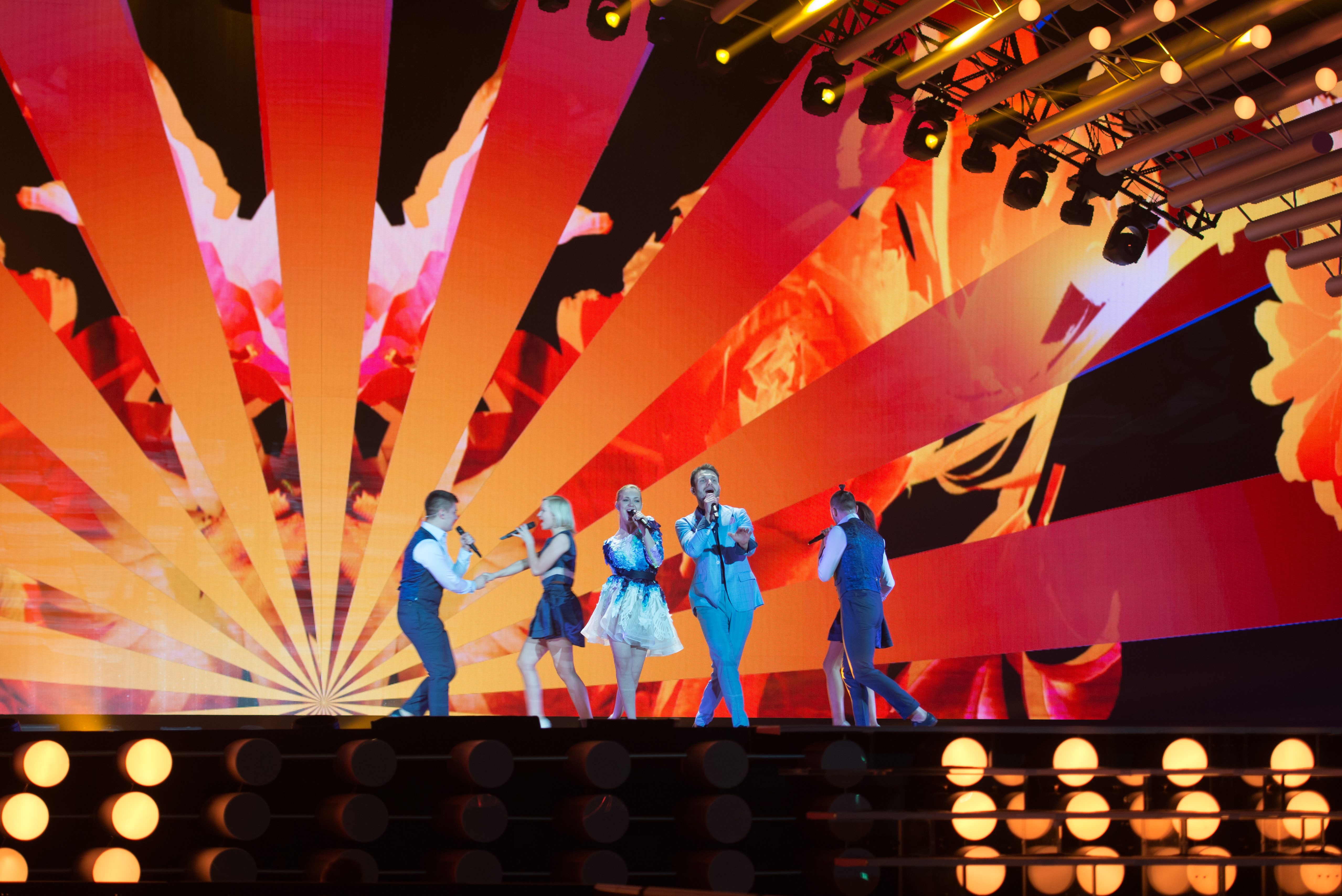 Eurovision Song Contest Vienna 2015: Monika Linkytė & Vaidas Baumila